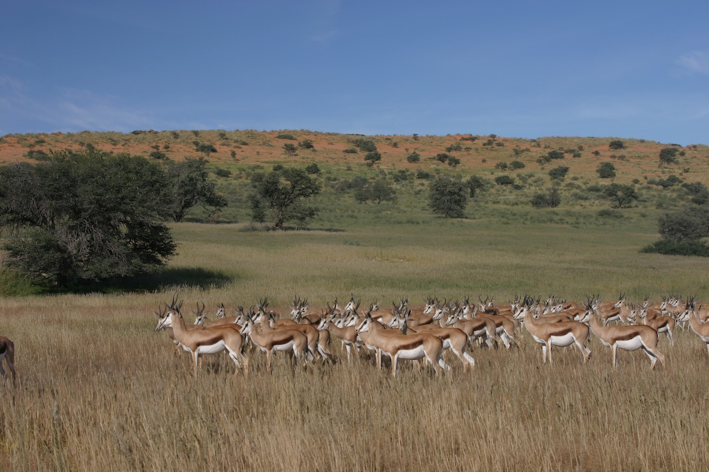 Auob valley near South African border